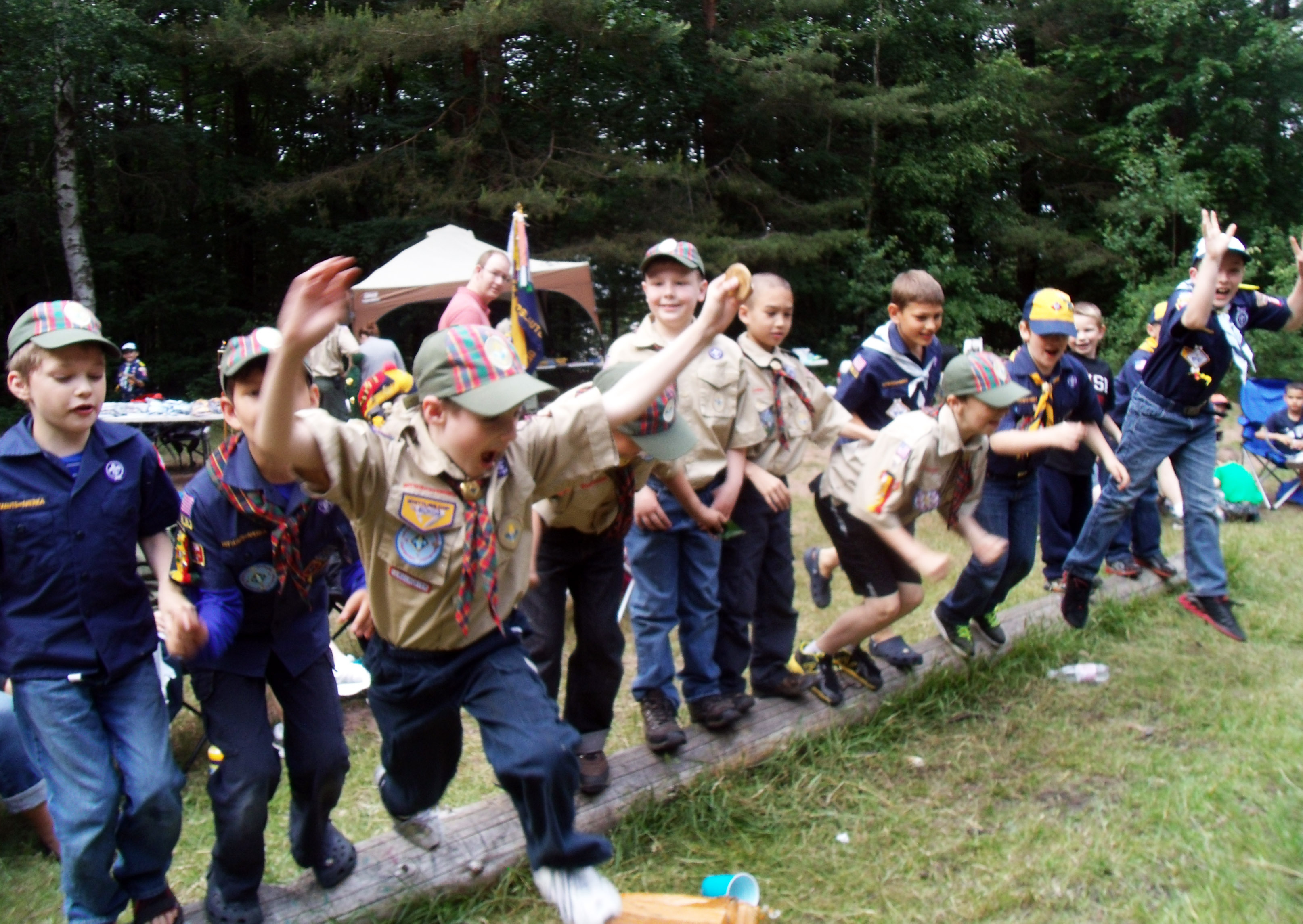 Pack 69 Cub Scouts celebrate their pending promotions prior to the “crossover” ceremony held June 1 at Camp Kachina. The ceremony marked the culmination of the last Scouting year and “date of rank” for newly-promoted Scouts. Scouting activities continue throughout the summer, albeit at a more modest pace. Upcoming events include a “bike rodeo” slated for June 14 and a “fishing derby” tentatively scheduled for June 21. District and pack-level leaders plan a variety of camps and other outdoor activities in July and August. The annual “Scout Expo,” typically conducted in early September, serves as a recruiting drive and unofficial start of the next Scout season. (Photo by Sgt. Maj. Michael Pintagro, 21st TSC Public Affairs)